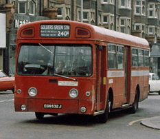 London Transport bus SMS632 (reg. EGN 632J), a 1971 AEC Swift single-decker with Park Royal bodywork, pictured in Golders Green, Barnet, operating London Buses route 240A, arriving from Mill Hill. SMS632 was withdrawn in June 1978, just two months after this photo was taken.